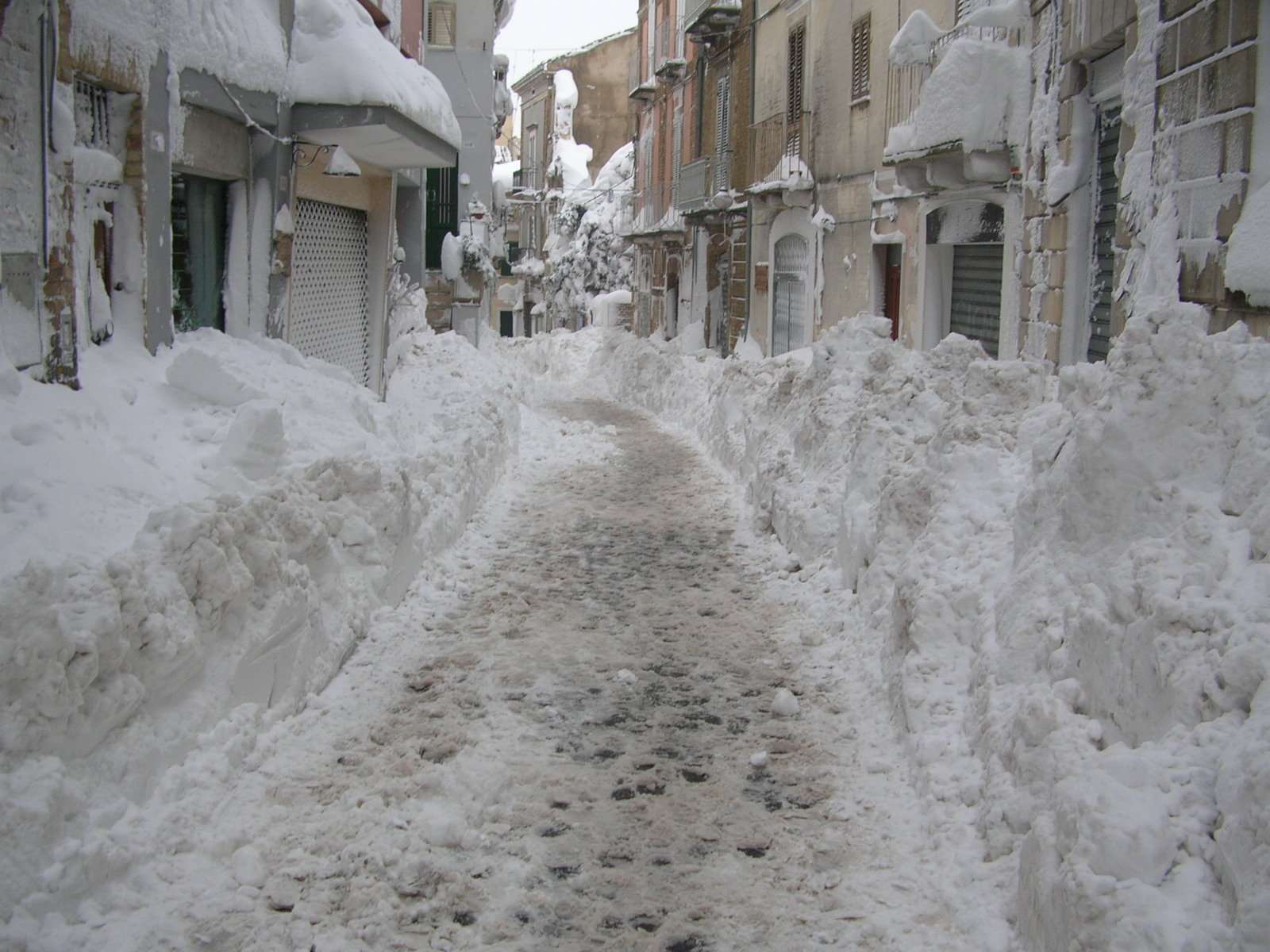 The main street of Guardiagrele under the snow (January 2005)